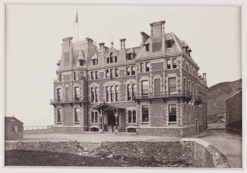 Creator: Francis Bedford (1816 - 1894) Date: c. 1880 Format: Albumen print Collection: National Media Museum Collection Inventory no: 1990-5037_B1_0088